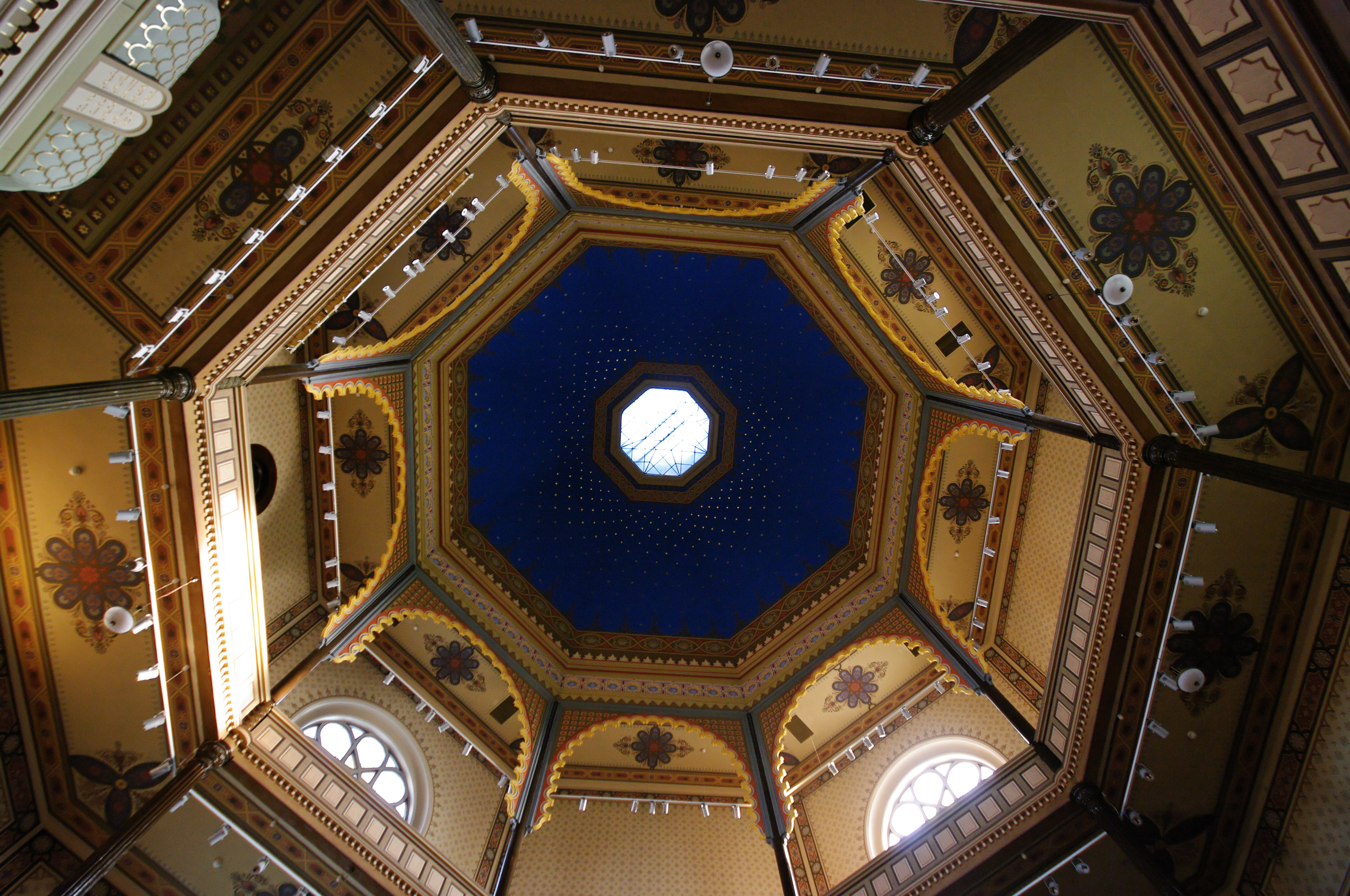 Cupola ceiling, in the Synagogue of Gyor, Hungary